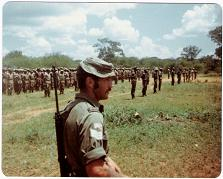 Photo: ©Copyright 1980 Subritzky Collection